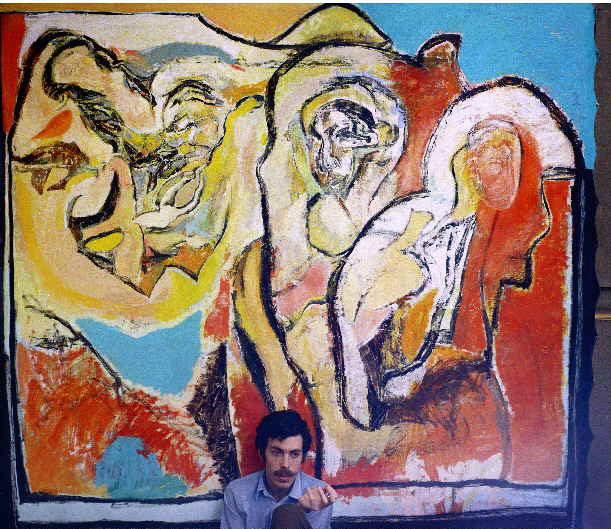 Father, Vulture, Holy Butterfly Photo with artist by Jim Morrissey